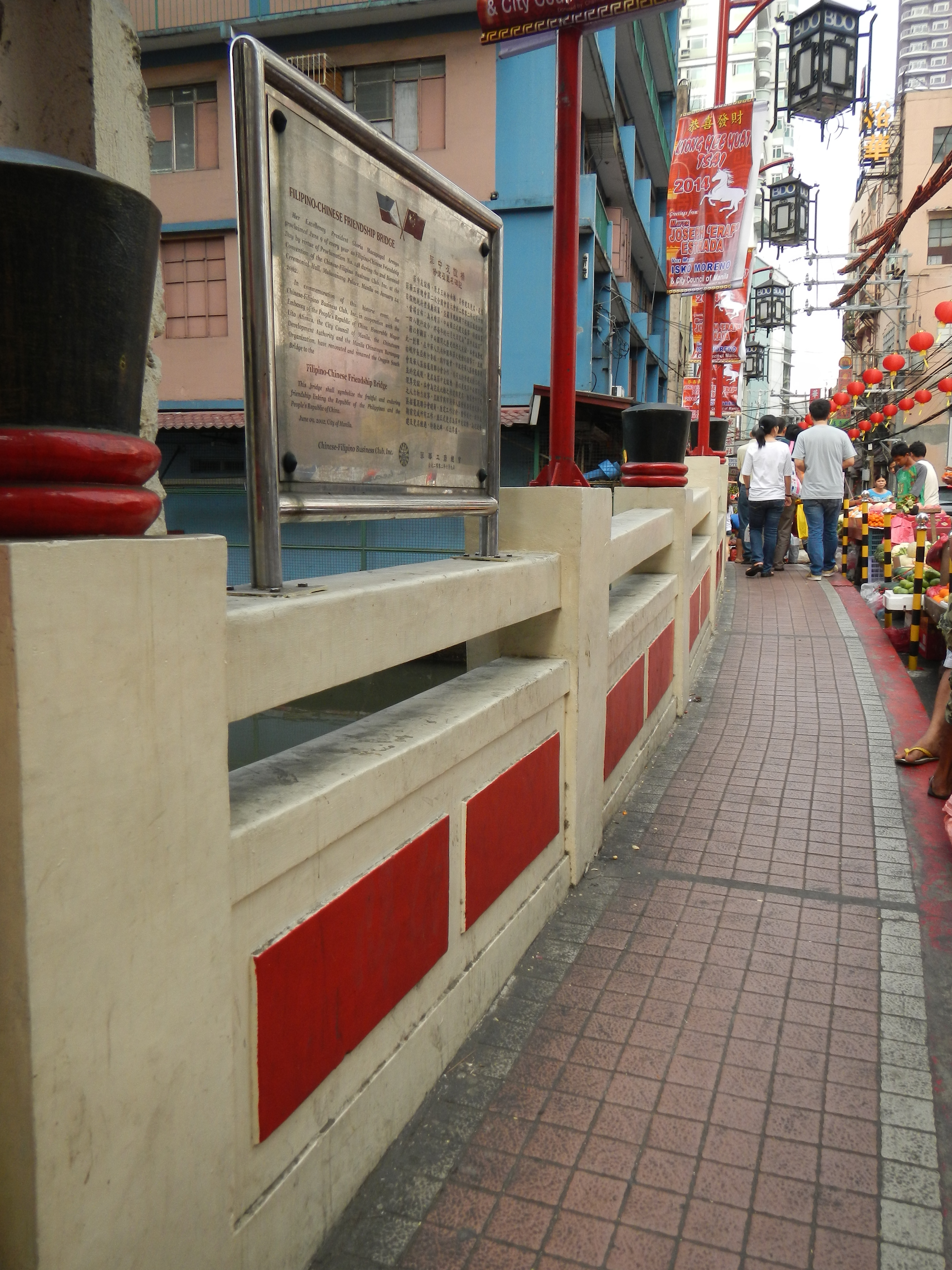 Upload Wizard photos of - (general description of the landmarks, angle by angle photography of the city, town, rivers, bridges and interesting points) -- the fruits, foods, and full of round circular things, in the Year of the Wooden Horse, Manila Chinatown, Chinese New Year 2014, Salazar st., Ongpin street, Binondo, Manila and Santa Cruz, Manila, President Grand Palace Restaurant at [1] Santa Cruz, Manila, List of Cultural Properties of the Philippines in Metro Manila[2] Welcome Arch, including Ongpin, Masangkay, Tomas Mapua Streets and 400-year-old original Chinatown in Binondo, Manila [Chinatowns in Asia] all parts of Manila Chinatown, including the historic Filipino-Chinese Bridge of Friendship refurbished by Mayor Joseph Estrada on September 11, 2013, Barangay 289, Zone 27 District III [3] Ongpin Street Coordinates: 14°36'3"N 120°58'33"E Chinese-Filipino Business Club, Binondo, Manila - The Oldest Chinatown in the World - [4] Chinese Filipino[5] China–Philippines relations [6] Chinatowns in Asia [7] Chinese New Year [8] Dragon dance[9] Lion dance[10] Chinese dragon[11].